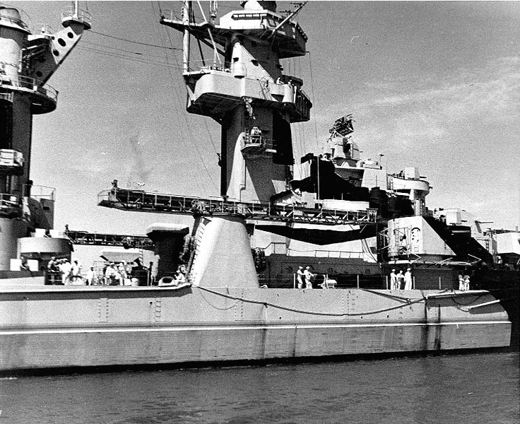 USS Alaska (CB-1): A detailed view of the forward superstructure and the aircraft catapults, circa 1945.